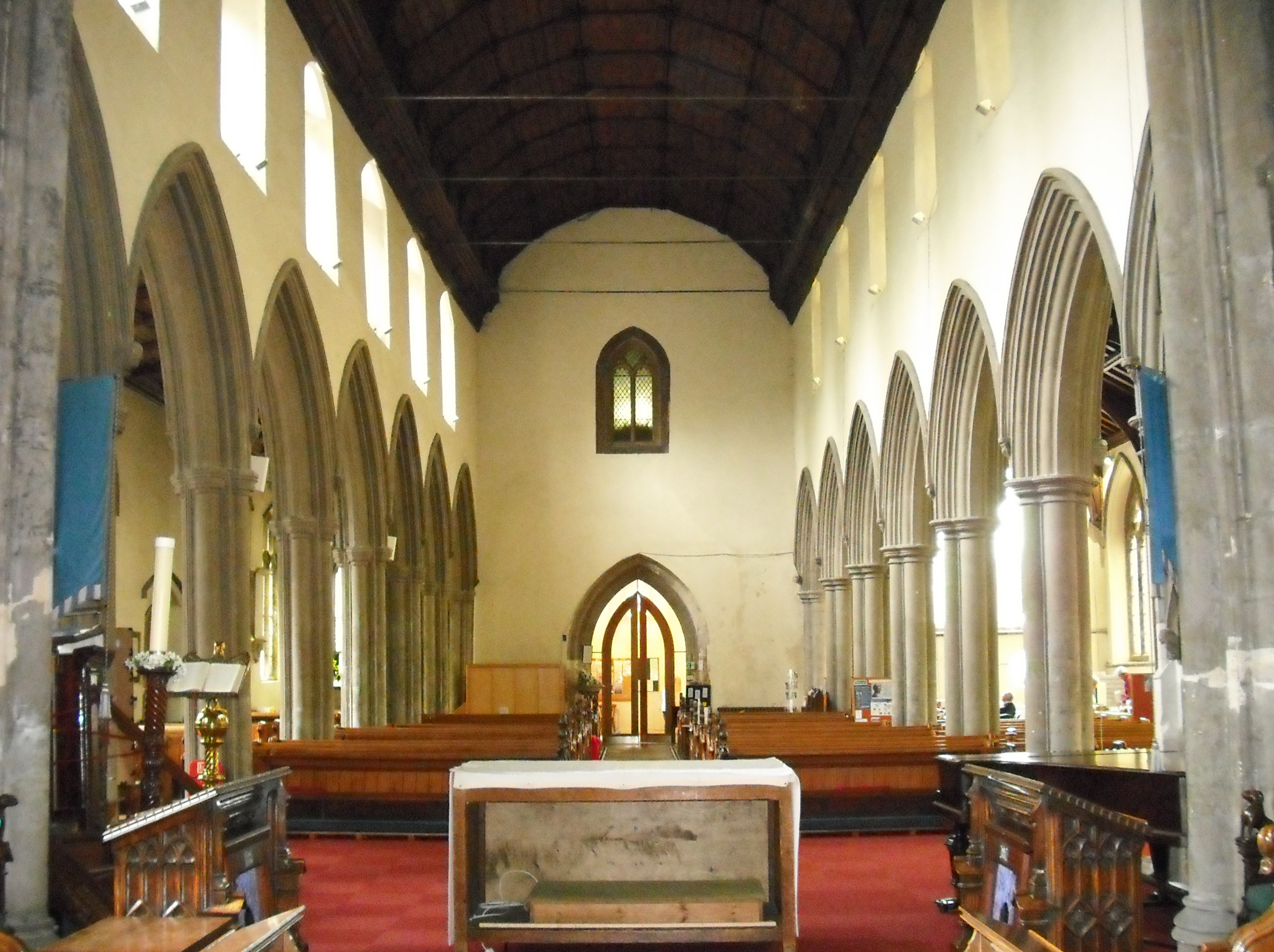 File:St Peter and St Mary's church, Stowmarket, Suffolk - nave, westerly view